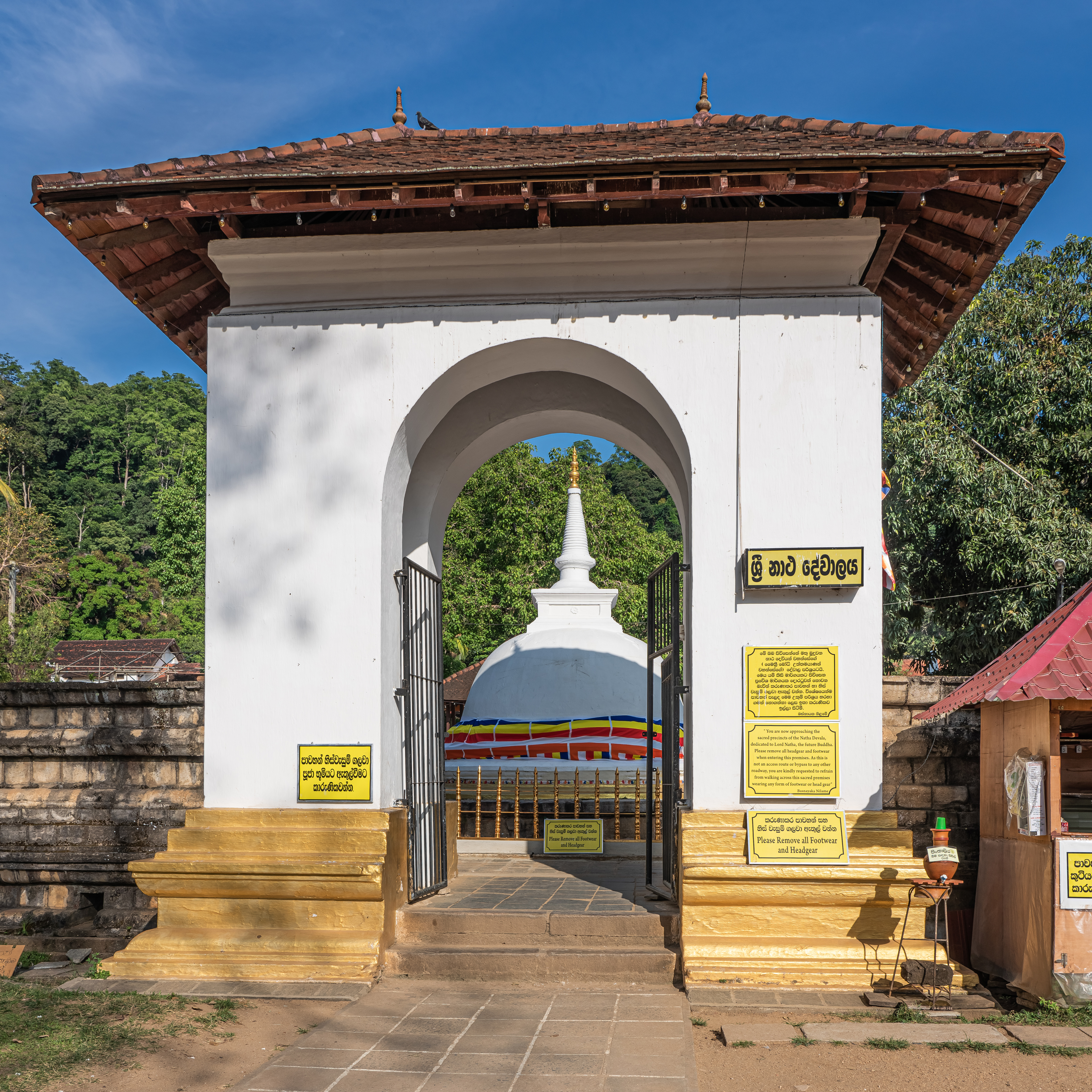 Natha Devale temple complex in Kandy, Sri Lanka